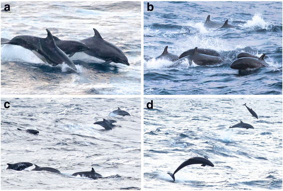 A mix-species pod of bottlenose dolphins (Tursiops truncatus) and false killer whales (Pseudorca crassidens) photographed 29 July 2017 about 180 km west of Vancouver Island